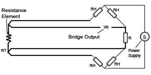 Four-wire configuration of a resistance thermometer.